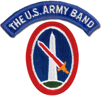 U.S. Army Band Shoulder Sleeve Insignia